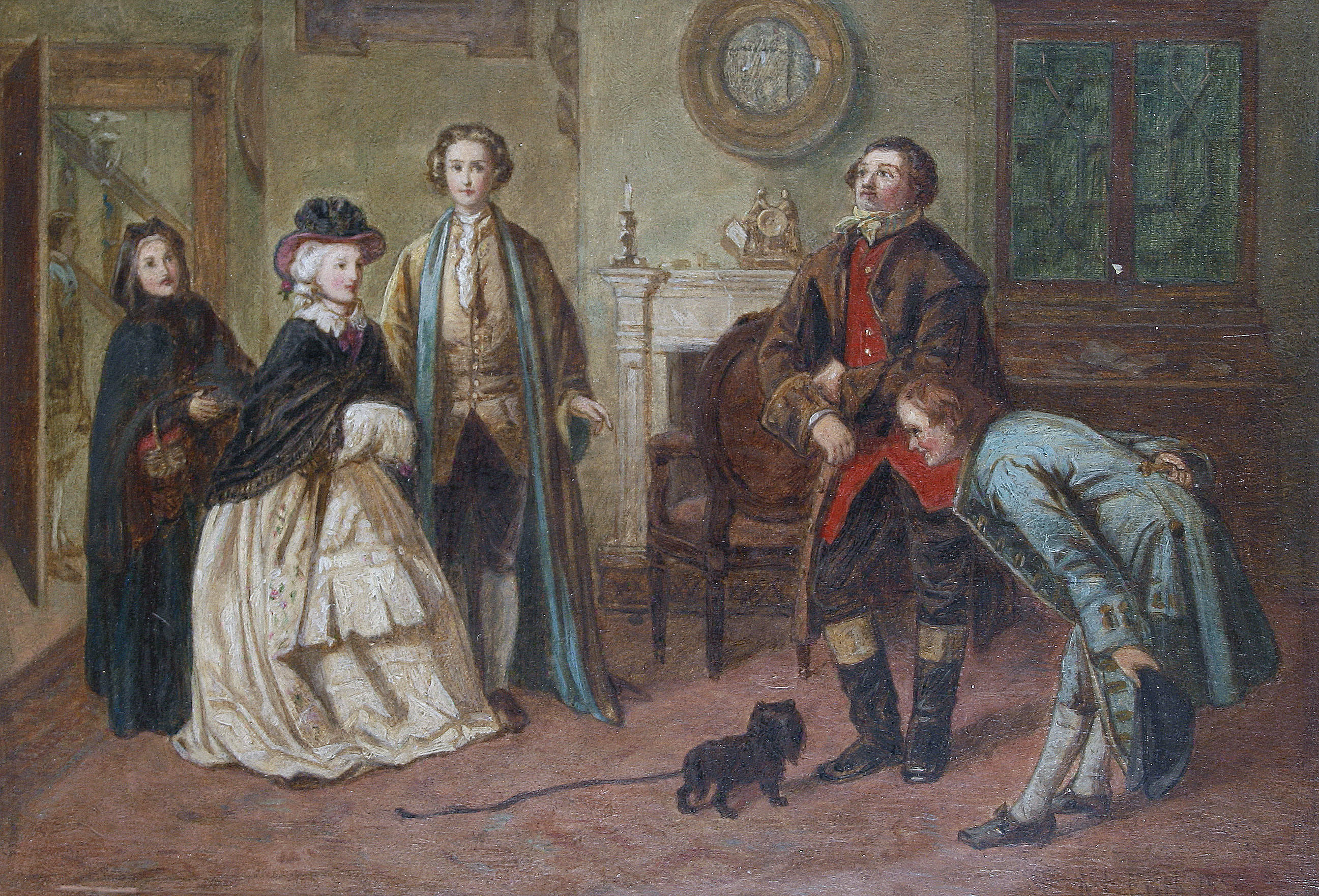 Scene from the play "The Good-Natured Man" by Oliver Goldsmith